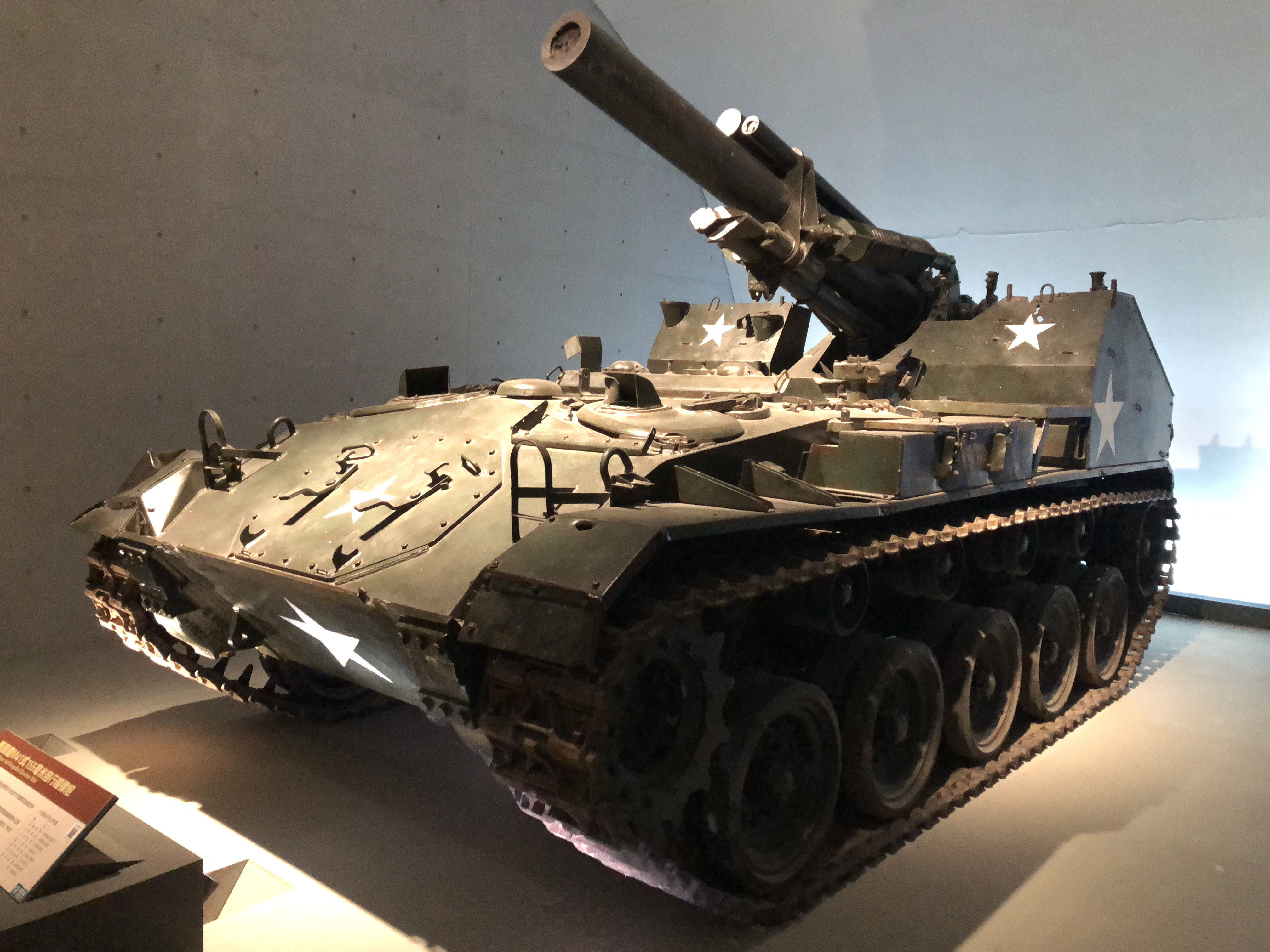 M41 HMC captured by PVA during Korean War,Photo taken by SergeantMitchell at Military Museum of the Chinese People's Revolution in Beijing